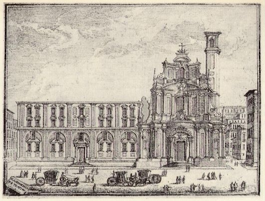 The church of S.Annunziata dei teatini built by Guarino Guarini